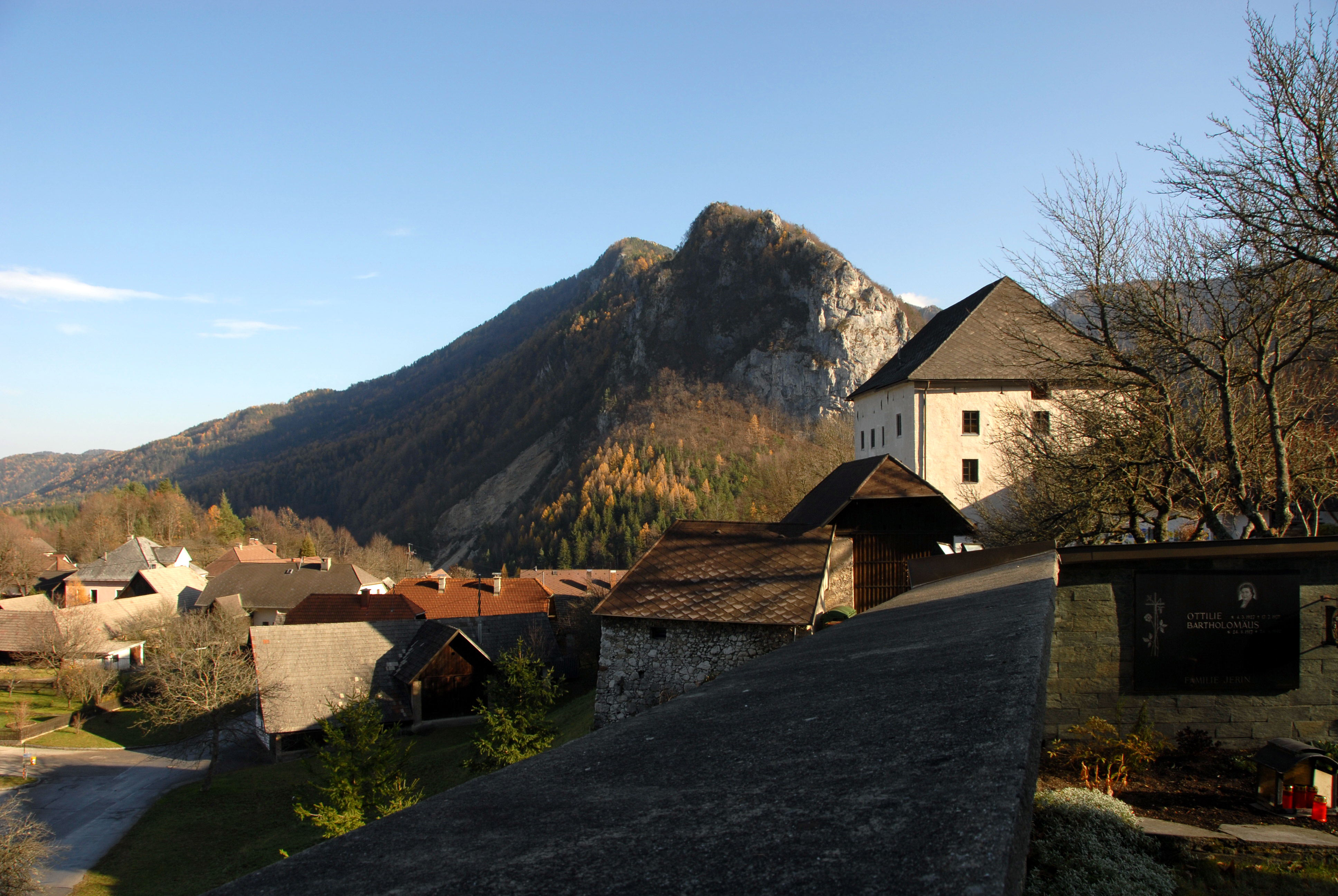 Locality and castle Rechberg in the community of Bad Eisenkappel, situated in the district Voelkermarkt, Carinthia, Austria